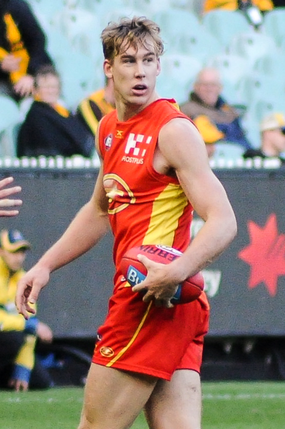 Tom Lynch during the AFL round twelve match between Melbourne and Collingwood on 10 June 2017 at the Melbourne Cricket Ground in Melbourne, Victoria